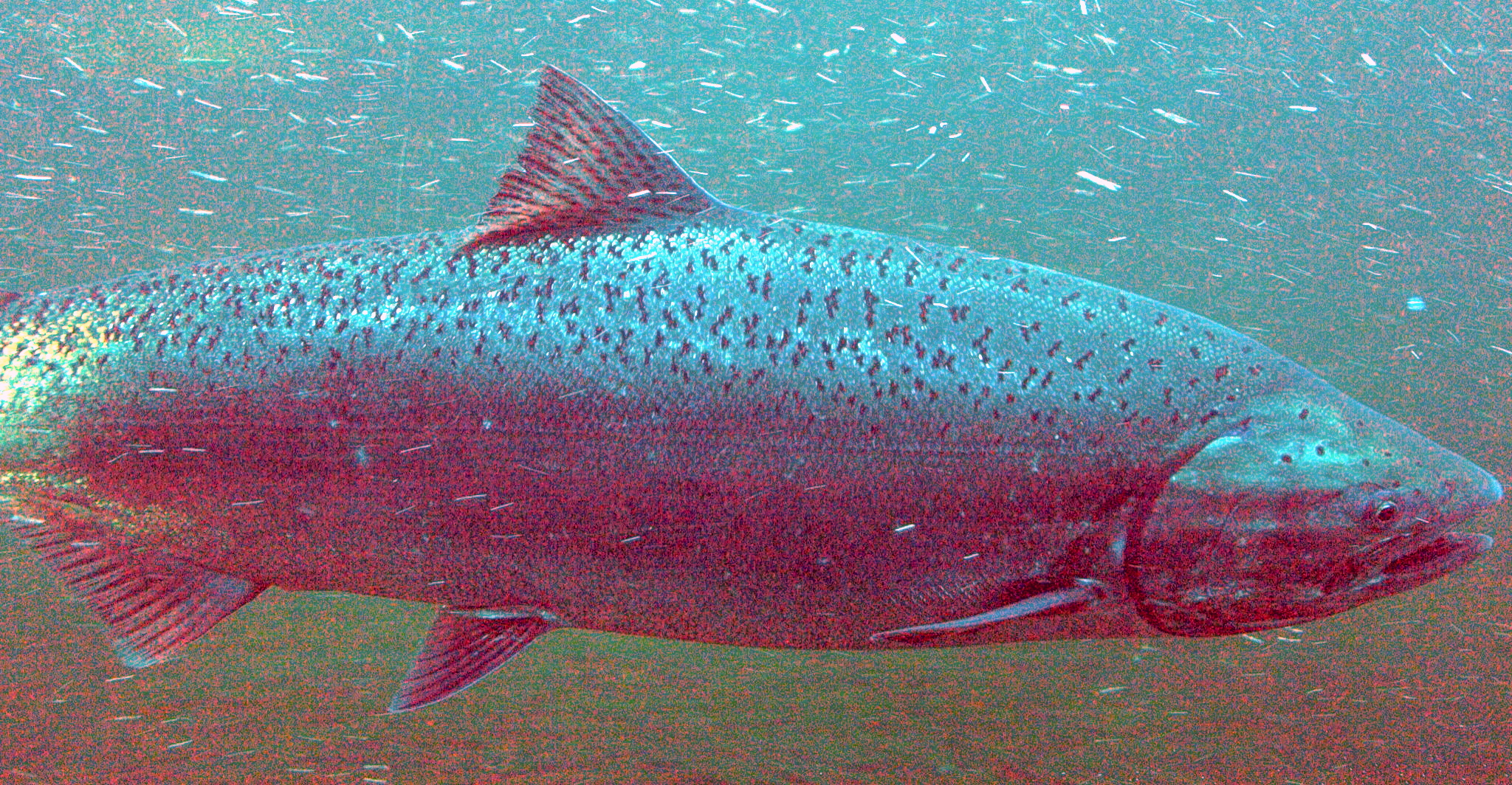 Chinook salmon in the fish ladder at the Hiram M Chittenden Locks (Salmon Bay, Seattle, Washington)